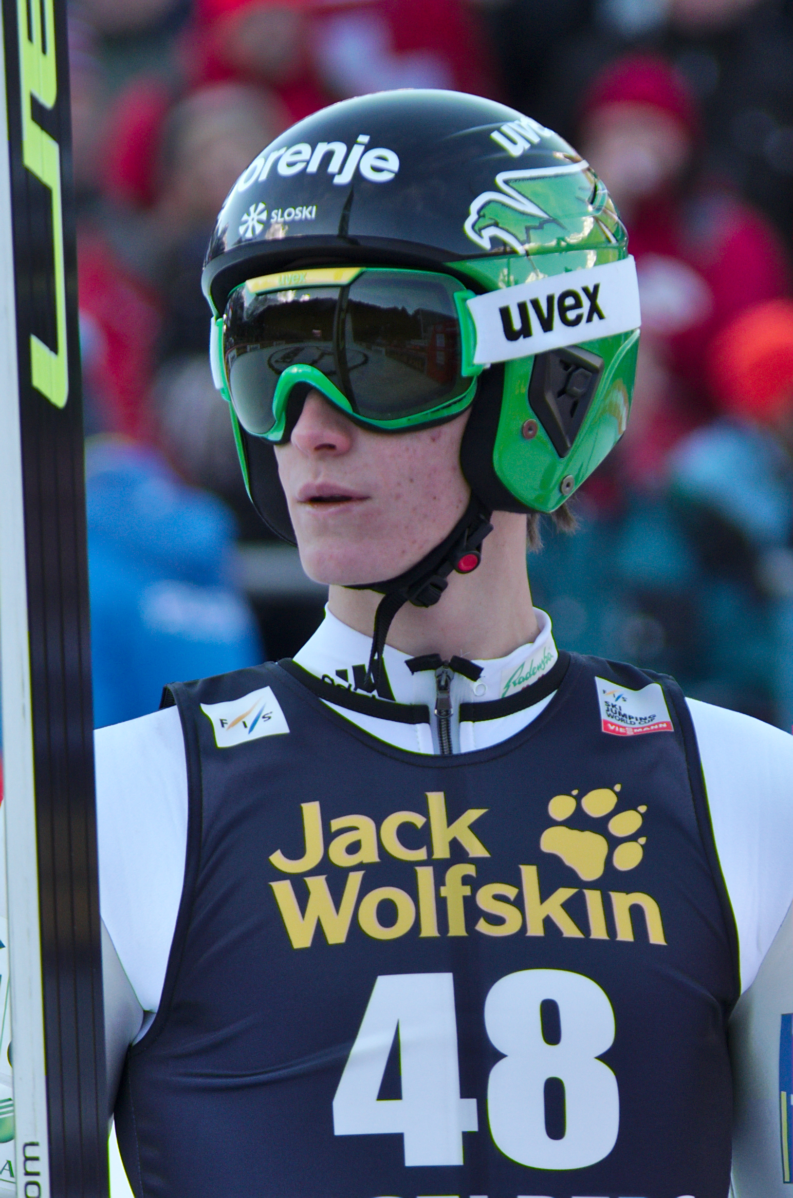 FIS Ski Jumping World Cup 2014 - Engelberg - 20141220 - Peter Prevc